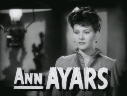 Ann Ayars in Apache Trail (1942), directed by Richard Thorpe (1942)